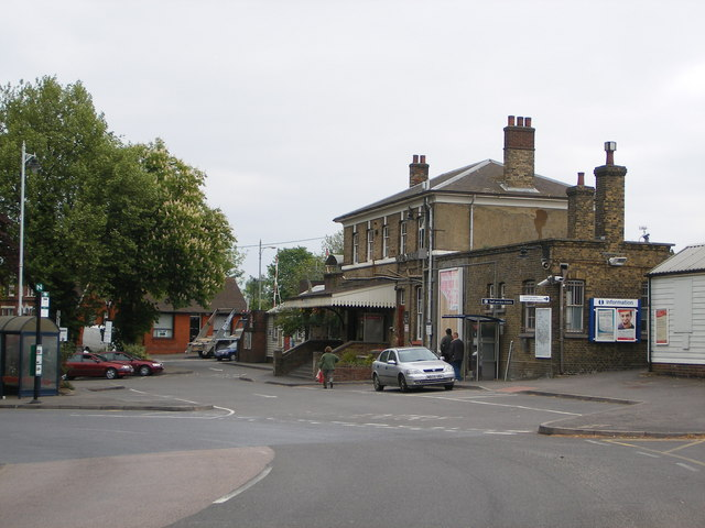 Farnham railway station